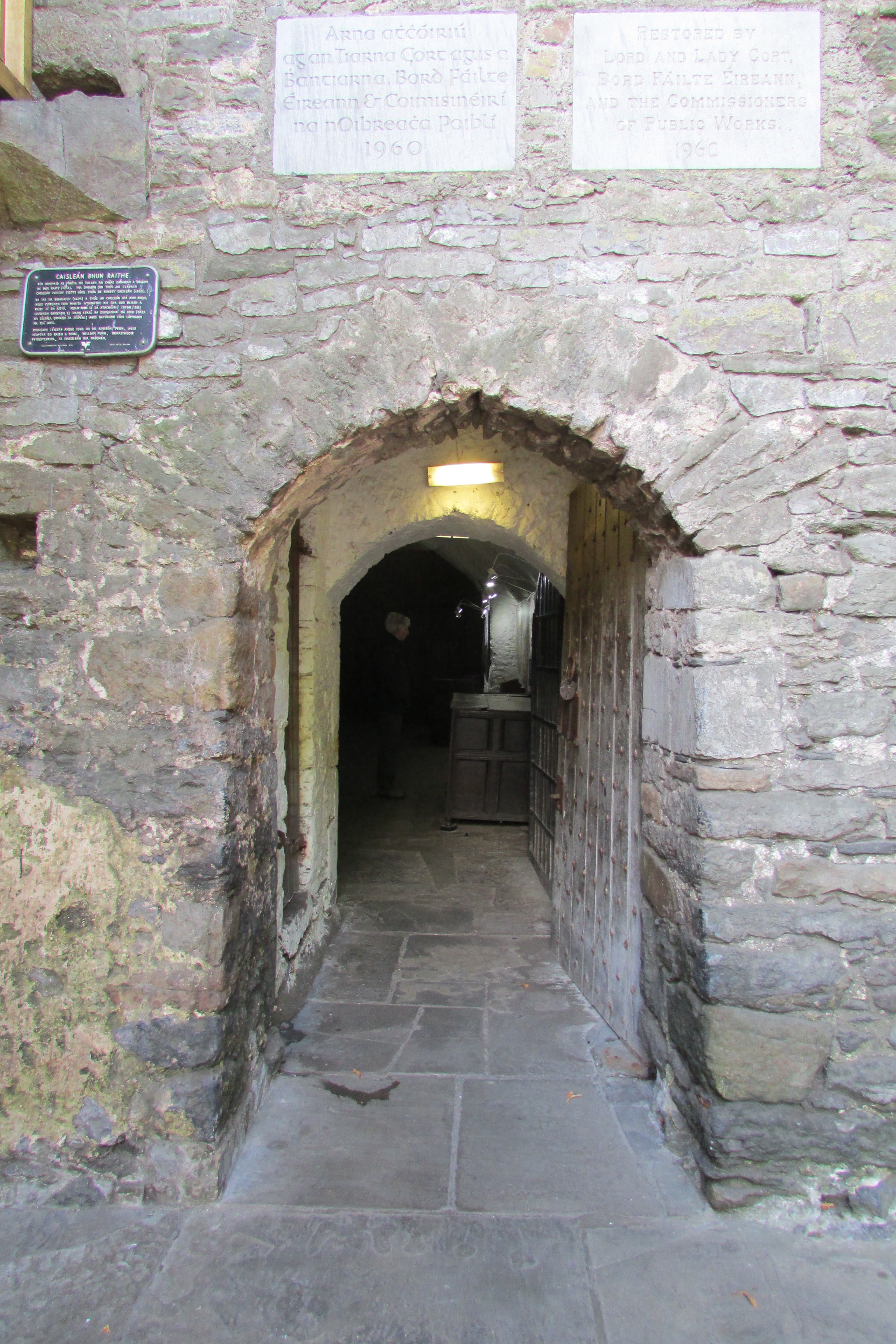 Basement of Bunratty Castle at the Bunratty Castle and Folk Park in Bunratty, Co. Limerick, Ireland.